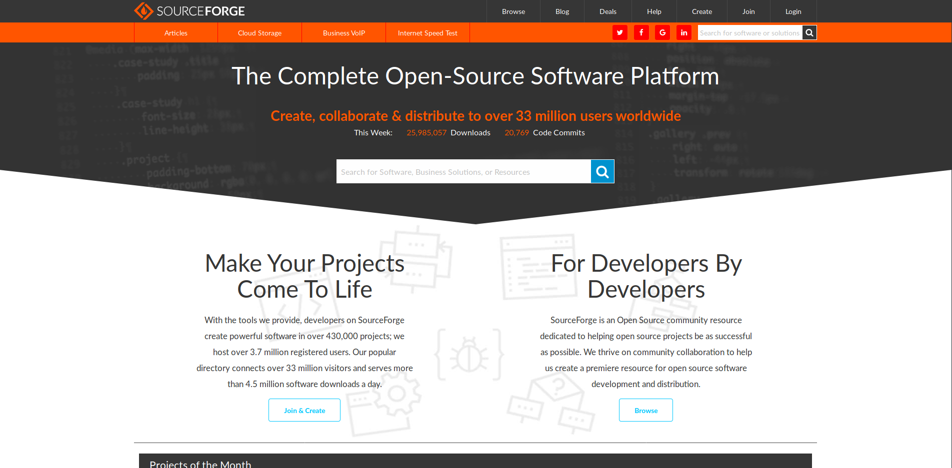 A screen capture of as February 2018.